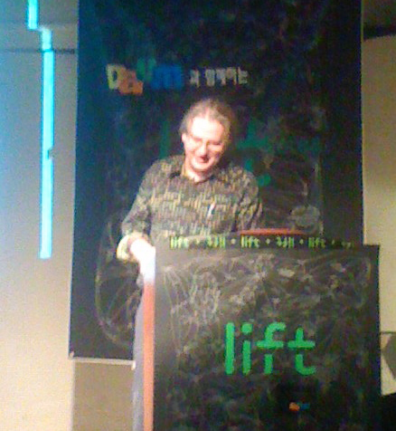 presentation at Lift conference 2007 0912 Seoul Korea